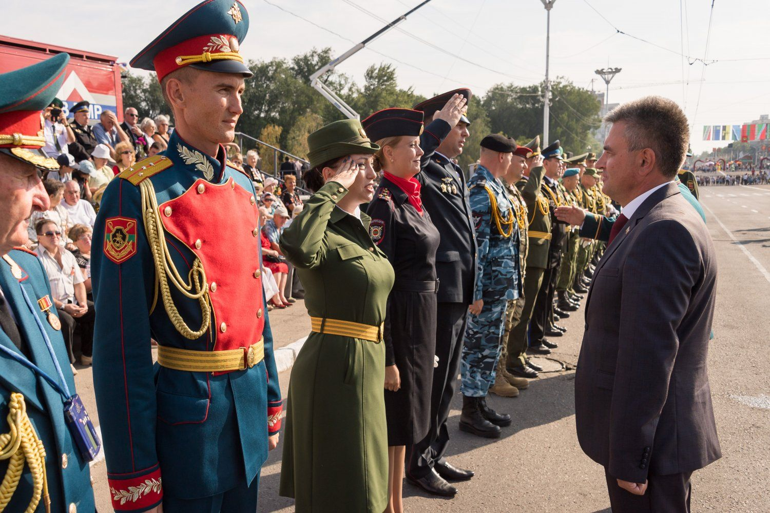 Президент ПМР назвал 2 сентября 1990 года символом торжества воли народа